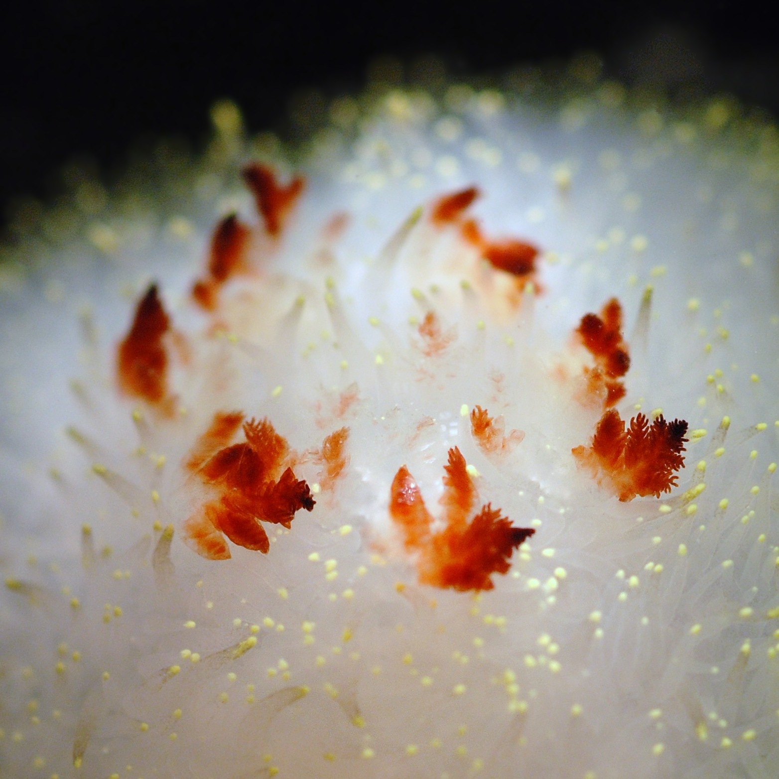 Detail of the brachial plume of the Rufous-tipped dorid nudibranch (Acanthodoris nanaimoensis)